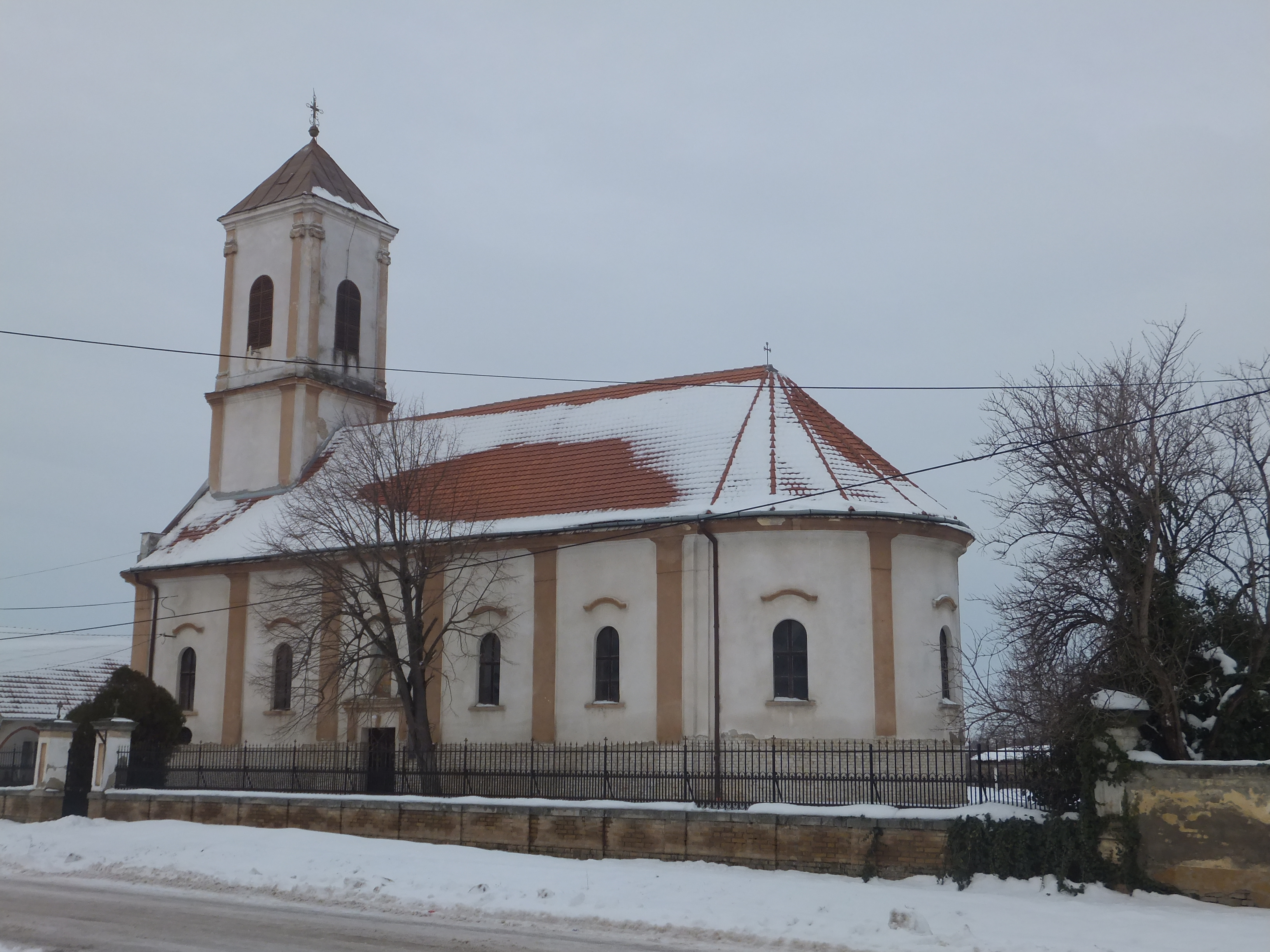 Church of Saint Nicholas in Dobrinci